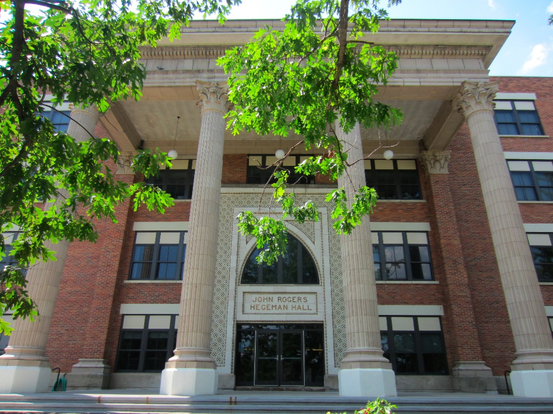 Hegeman Hall, Keuka College, New York